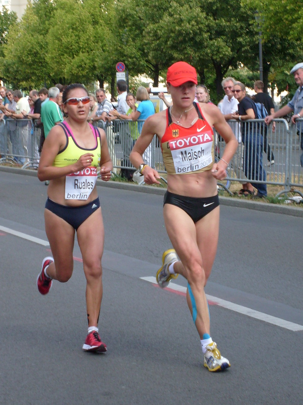 Sandra Ruales and Ulrike Maisch during marathon race at 12th World Championships in Athletics Berlin 2009